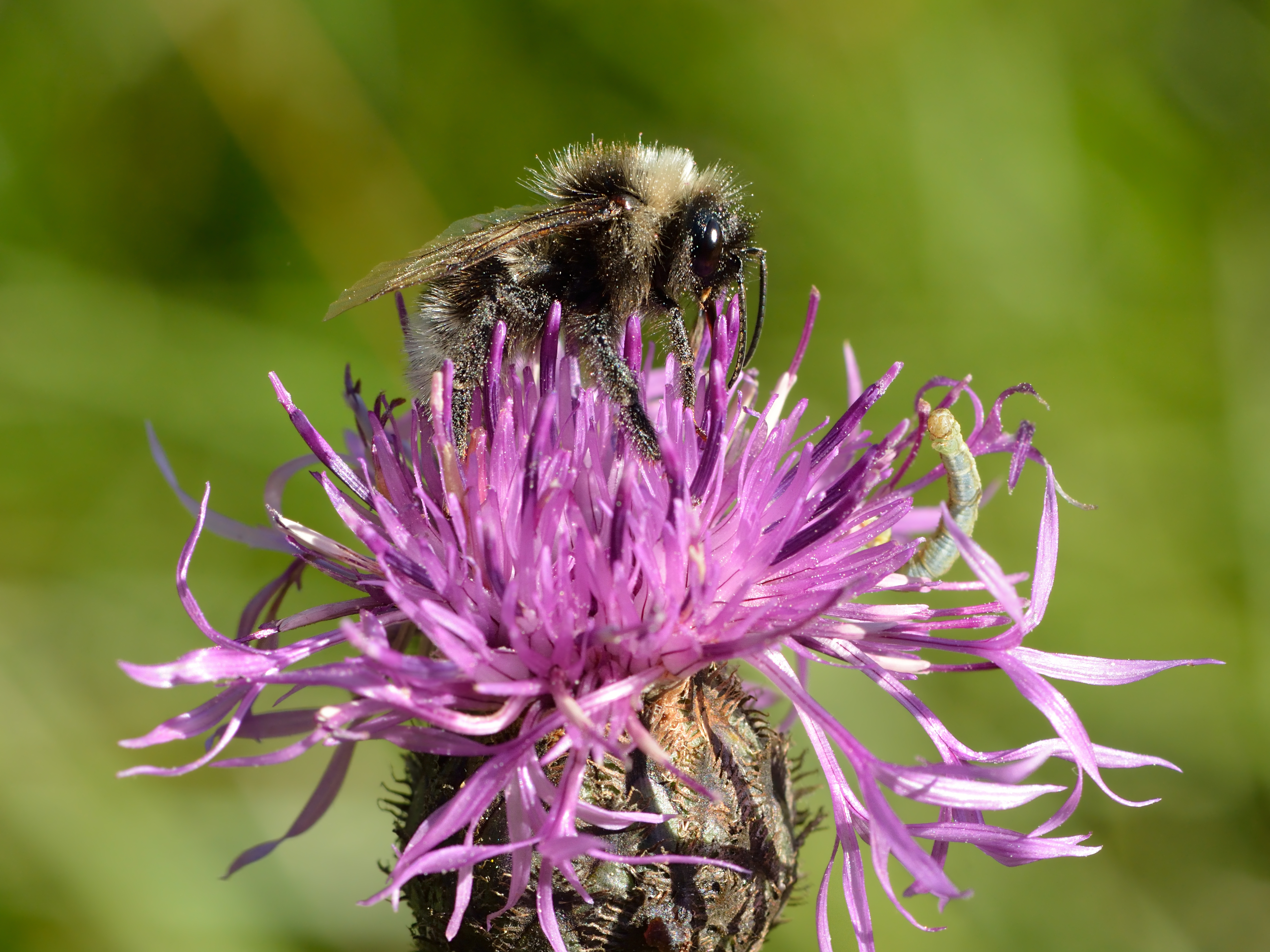 Barbut's cuckoo-bee (Bombus barbutellus) on the Greater Knapweed (Centaurea scabiosa). Keila, Northwestern Estonia.